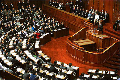 The Japanese Diet: President George W. Bush expresses his support for Prime Minister Junichiro Koizumi during his address to Japan's legislature. "We were grateful, so very grateful, for the condolences and compassion of the Japanese people and the Japanese government," said the President during his address. "We were especially touched -- especially touched that the people of Ehime Prefecture sent a donation to the families of victims, showing empathy for loss, even when their own was so recent. This is a gesture of friendship my nation will never forget."